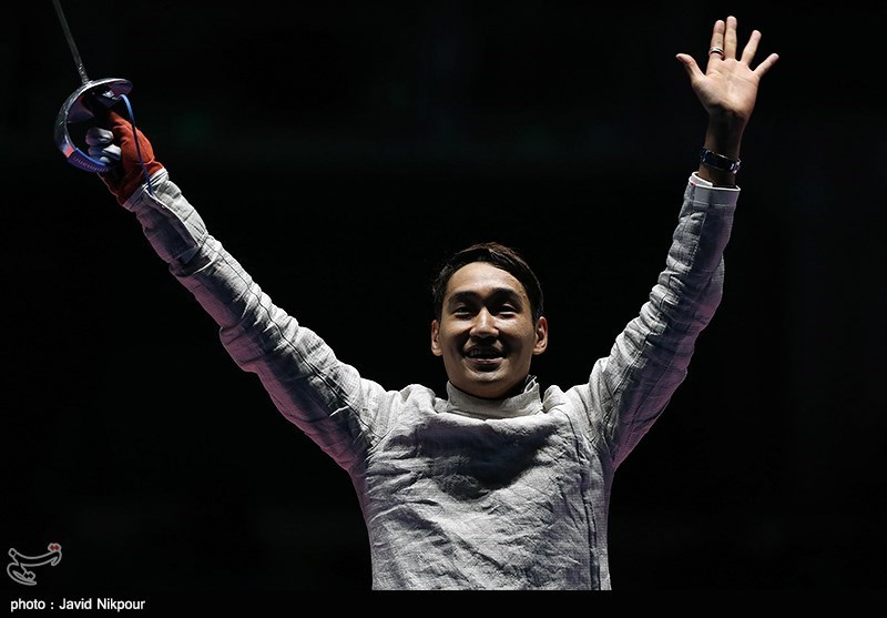 South Korean Kim Jung-Hwan celebrates after defeating Iranian Mojtaba Abedini to win bronze in the Men's Fencing Individual Saber at the 2016 Rio Summer Olympics in Rio de Janeiro, Brazil, on August 10, 2016.